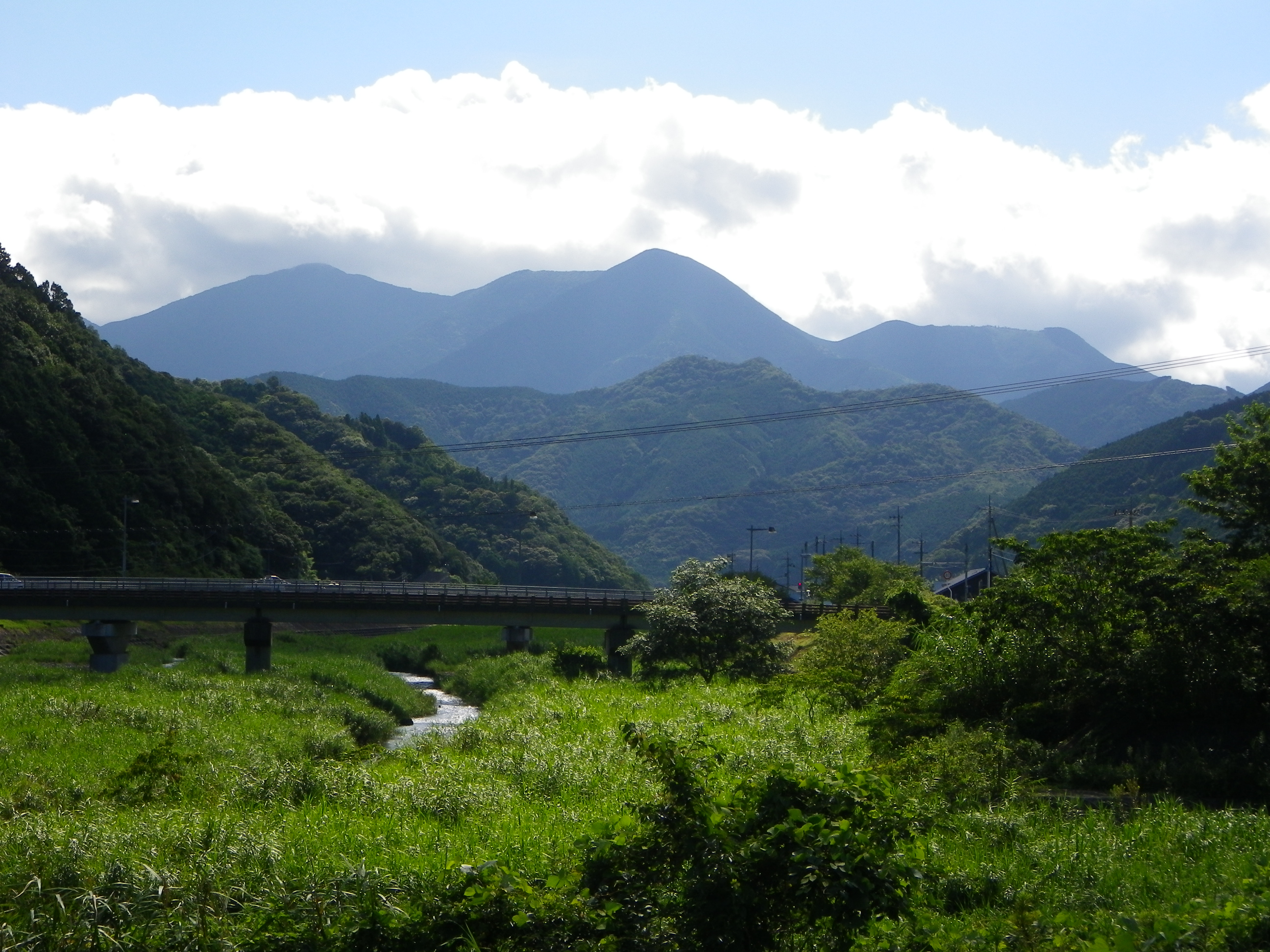 Mount Yuzurigahamori as seen from the west. Iwamatsu River in the foreground.